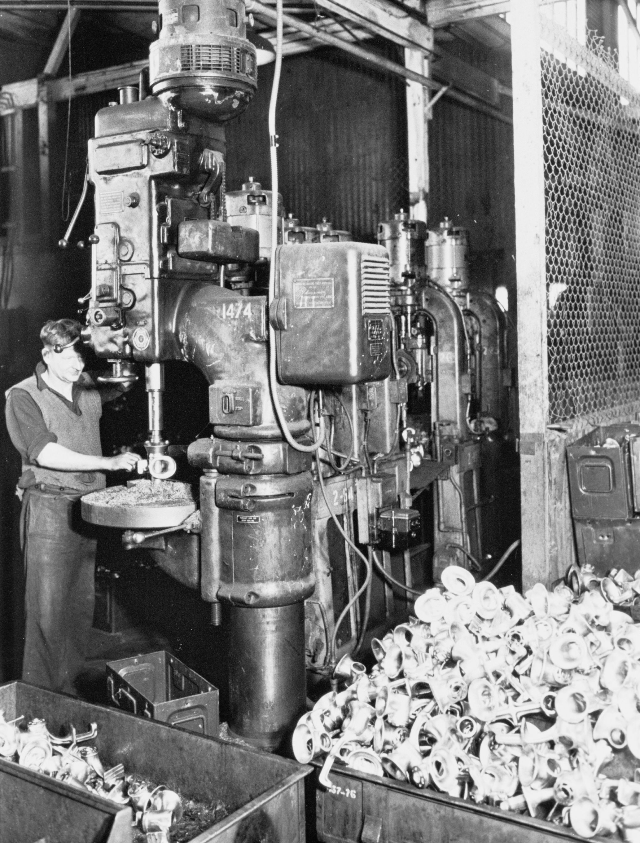 In this photograph, the date and time of which is unknown, a man is using a cutting machine for parts in the Pope Product factory. Pope Products Ltd. was an Australian manufacturer, based in Beverley, South Australia, best remembered for washing machines and refrigerators. The company was founded in 1935 by Sidney Barton Pope (18 February 1905 – 2 September 1983) (generally referred to as "Barton" or "S. Barton Pope" and from 1959 "Sir Barton") and his brother Harley Clifford Pope (6 April 1908 – ) to manufacture irrigation equipment with an initial capitalization of £15,000 in £1 shares.